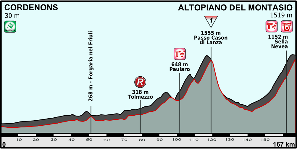 Giro d'Italia 2013 - stage profile # 10